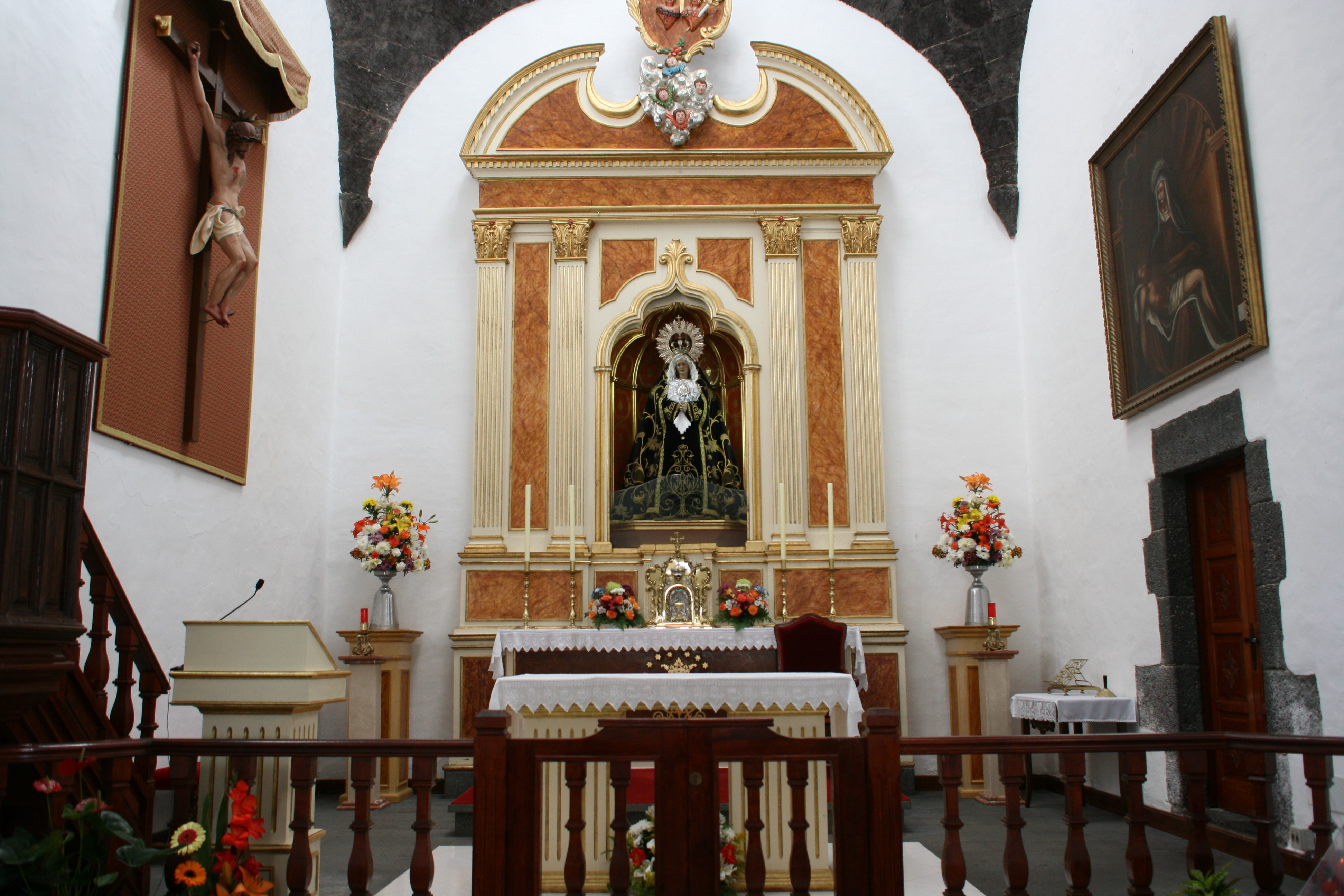 Nuestra Señora de Los Dolores, Calle Virgen de Los Dolores in Mancha Blanca, Tinajo, Lanzarote, Canary Islands